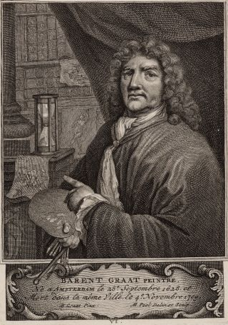 Engraving of the painter Barend Graat, with caption